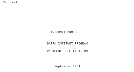 Part of the first page of IPv4 current standard RFC 791, it contains the title of the standard as well as the code name.